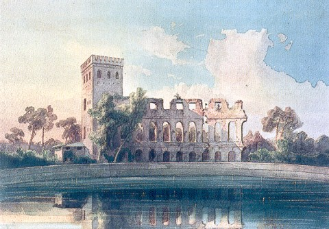 Norman tower and ruinwall on Mount of Ruins, Potsdam